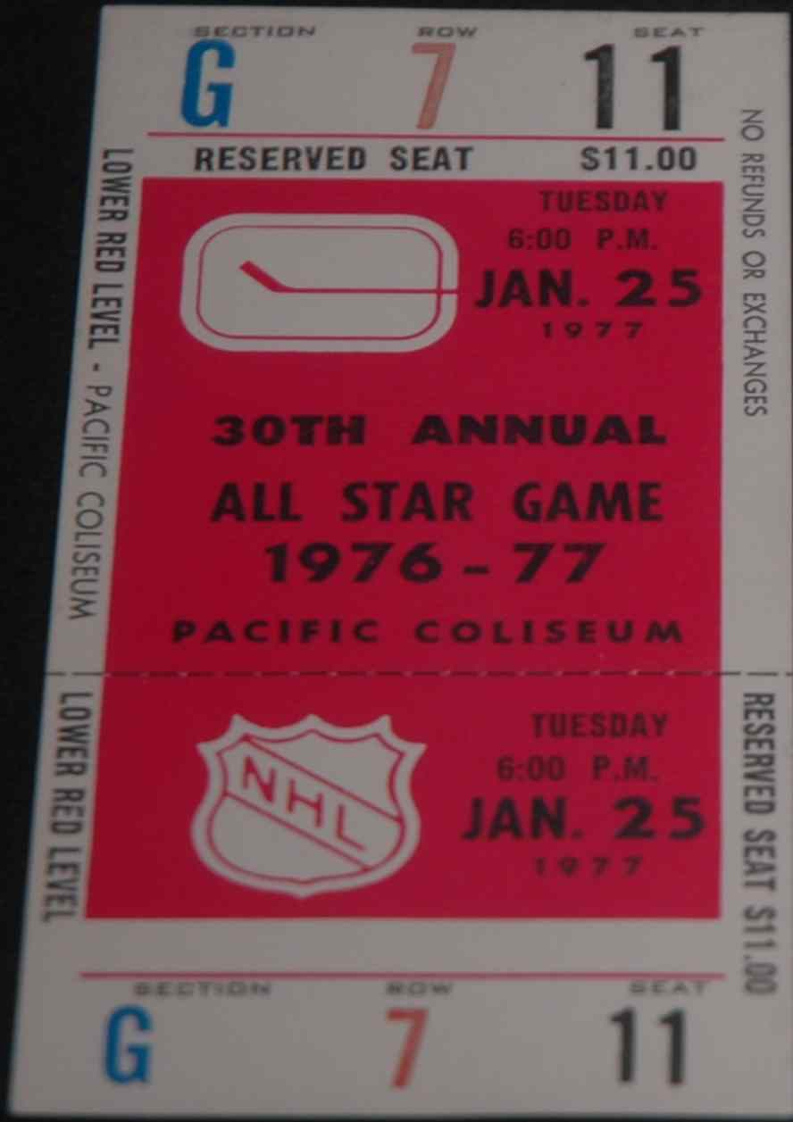 Ticket for the NHL All-Star Game 1977, shown in the Hall of Fame in Toronto